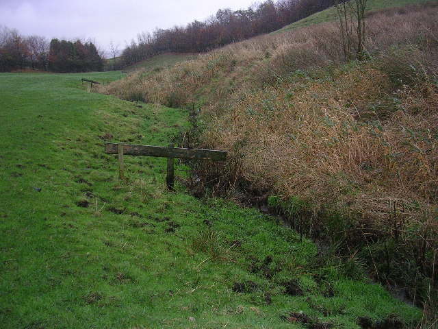 Infant River Irk. Looking upstream to the east towards the source of the River Irk, which lies beyond the trees on the skyline. Here the infant river flows in a westerly direction before turning to the south and heading for the River Irwell in Manchester city centre-42584